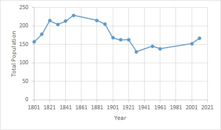 The total population of the civil parish Fakenham Magna, Suffolk, as reported by the Census of Population from 1801-2011.